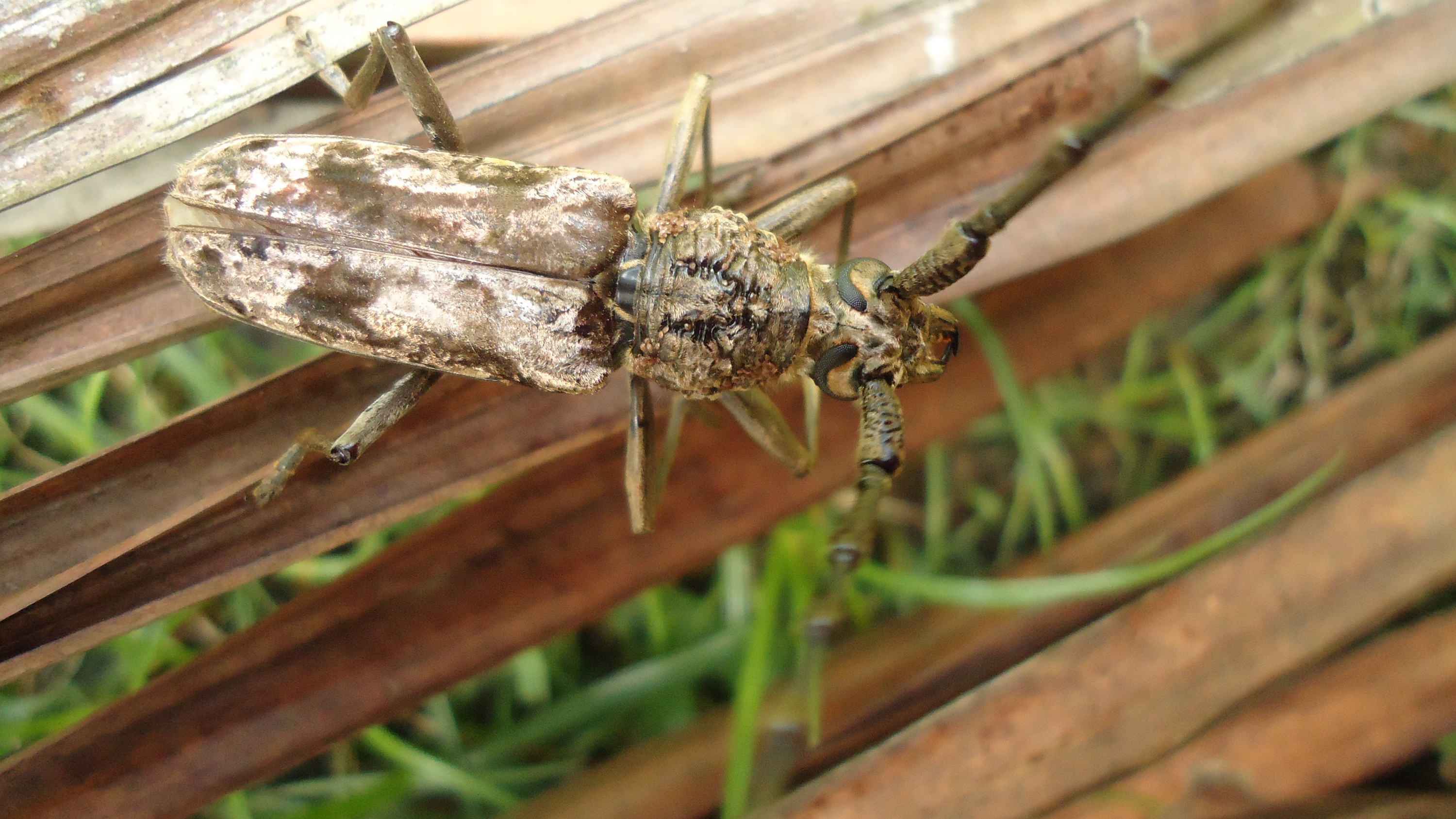 Aeolesthes induta (satin-wood borer) from Mindanao, Philippines